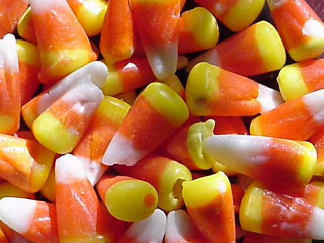 children are taught to not accept candy that's unwrapped on Halloween (and not at all the rest of the year). They woudln't take the candy corn. The didn't take the cookies, the year I had them fresh out of the oven, either.